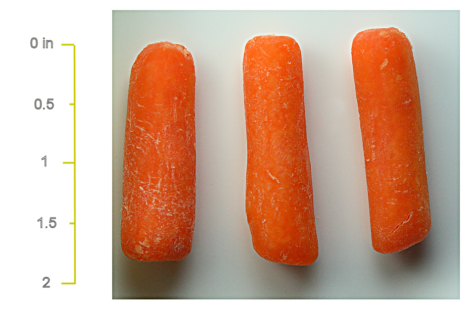 Image of "baby-cut" carrots